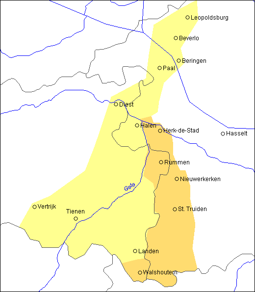 Area of Geteland dialect in Belgium